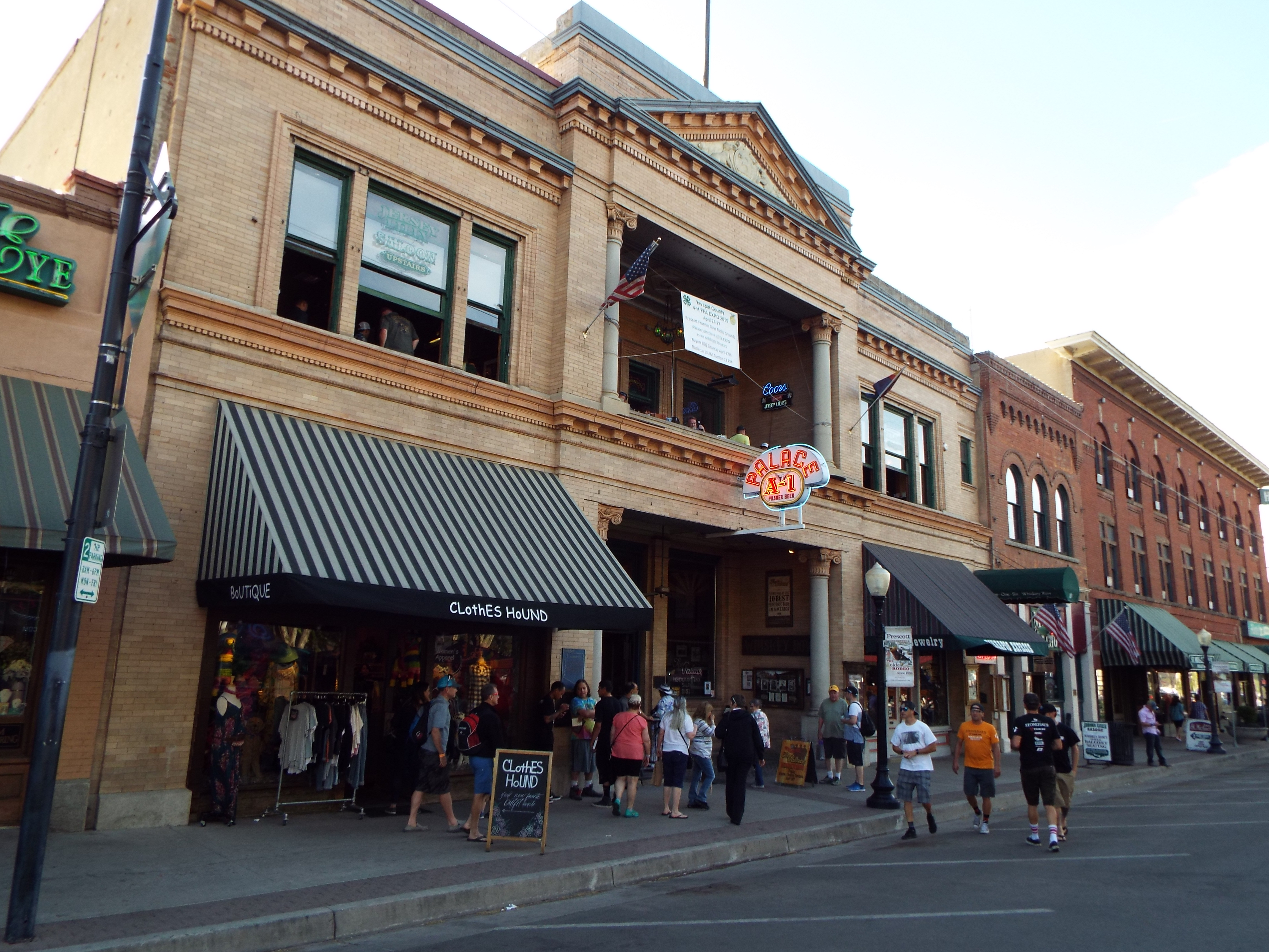 Palace Hotel-1901-in Prescott, Az